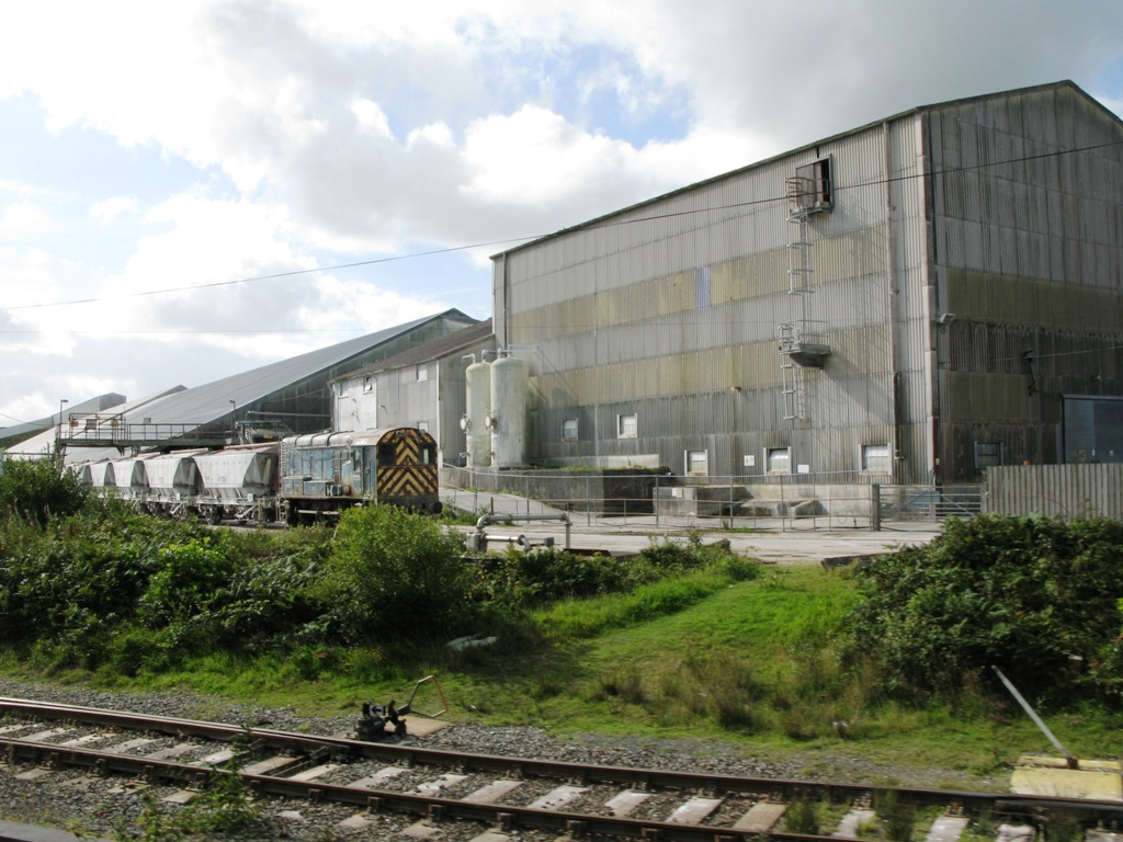 Imerys's Rocks china clay works near Bugle, Cornwall, United Kingdom. The locomotive is P400D, formerly British Rail's 08320